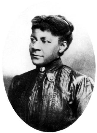 Sarah Bickford (c. 1852 – 1931)